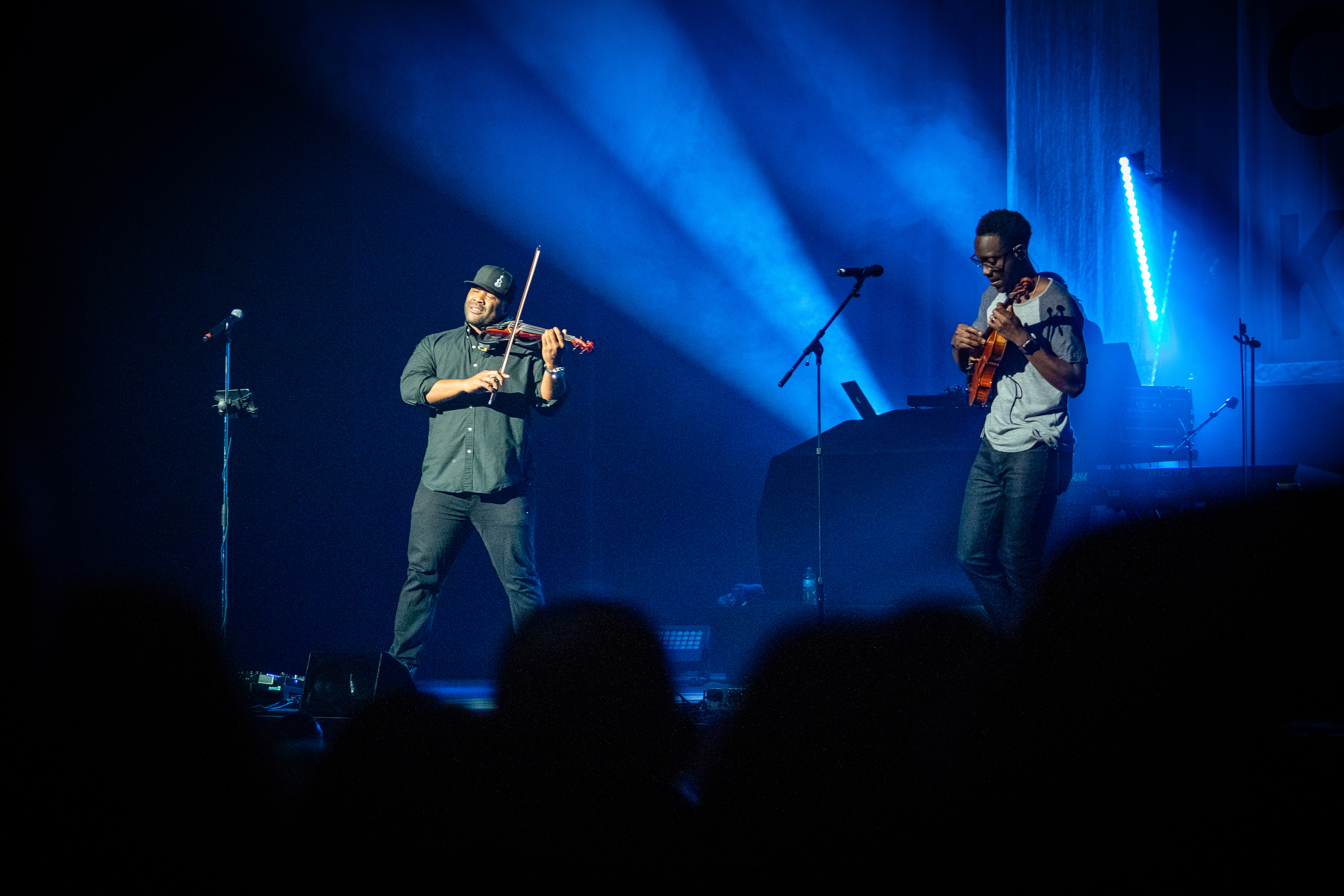 Black Violin performing their string arrangement of hip-hop classics, on-stage.